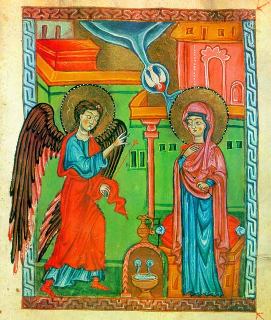 The Annunciation The Gospels, 1323, Gladzor Monastery, Siunik. Written and illuminated by Toros Taronatsi.